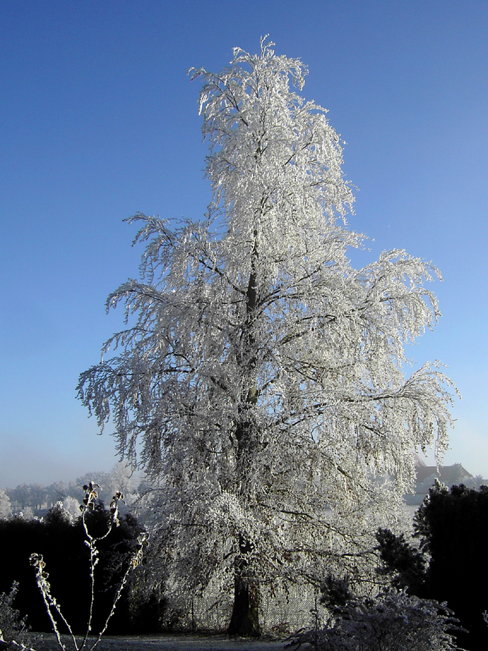 White frost on a tree in Bavaria in a cold and sunny morning with clear sky